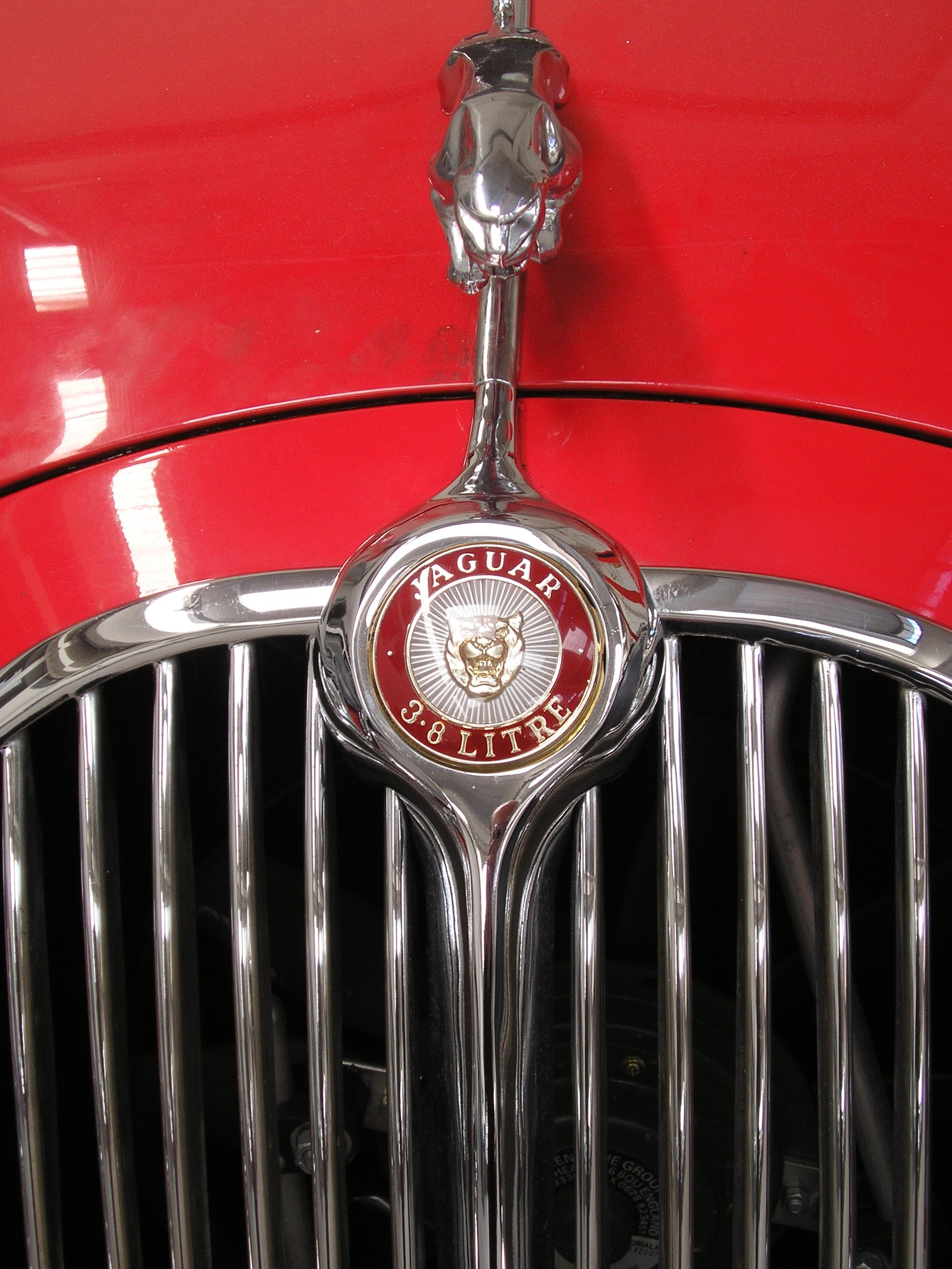 Jaguar MK2 3.8Litre insing